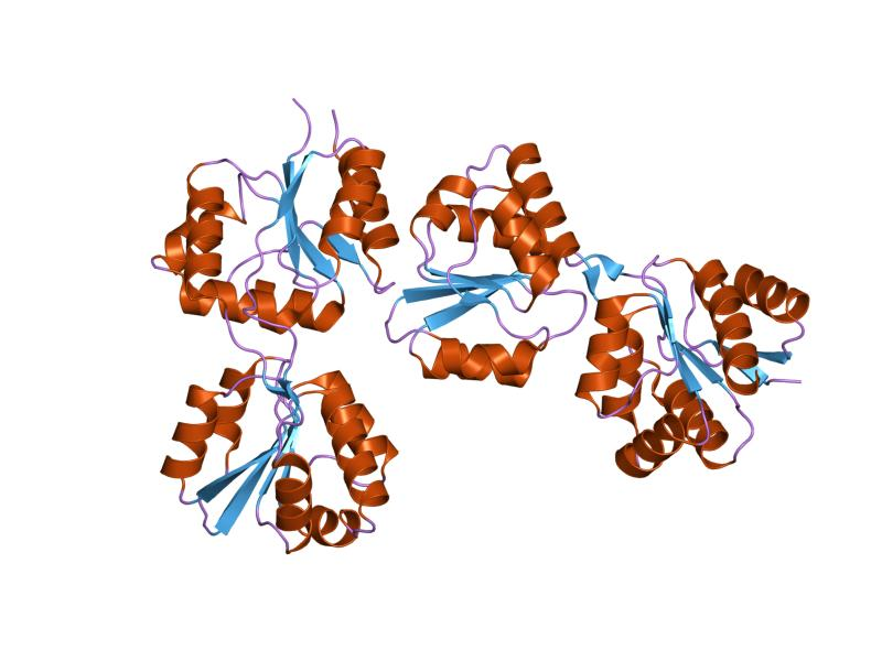 Cartoon representation of the molecular structure of protein registered with 1wd7 code.